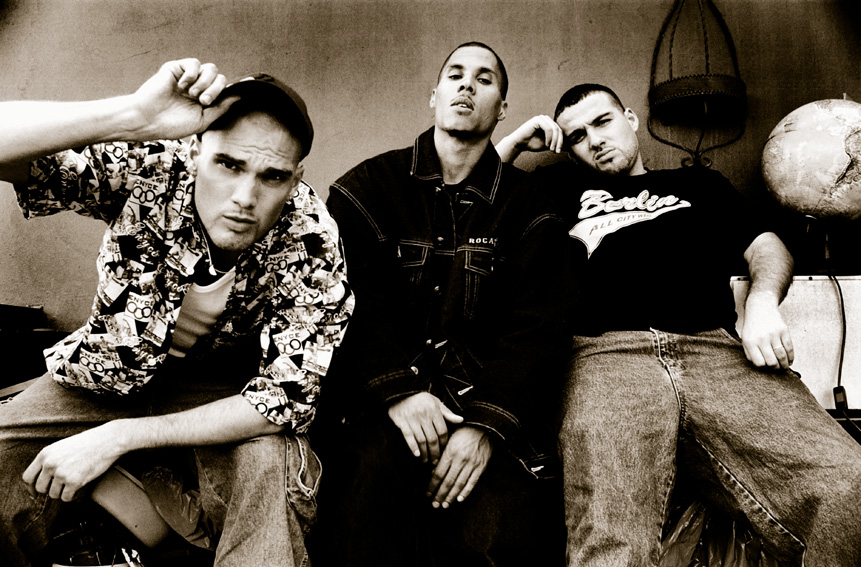 Berlin 2000